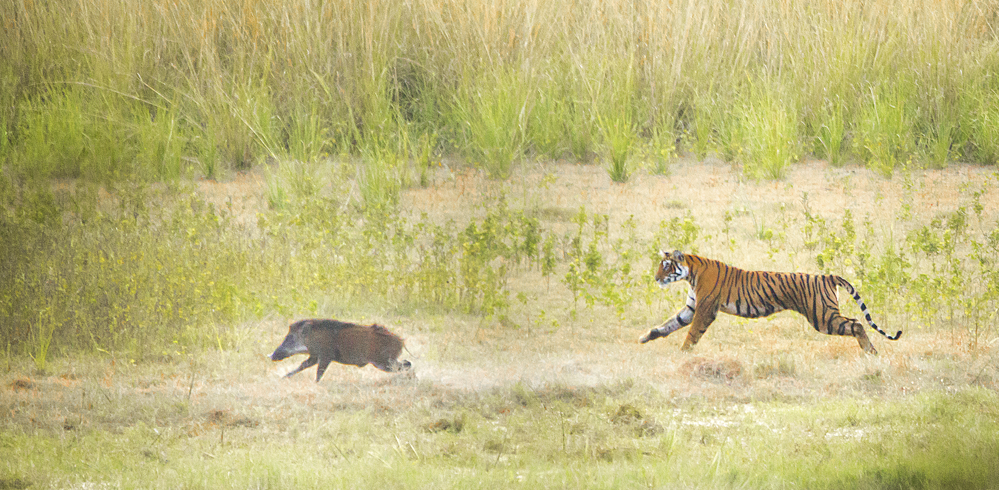 tiger chasing wild boar